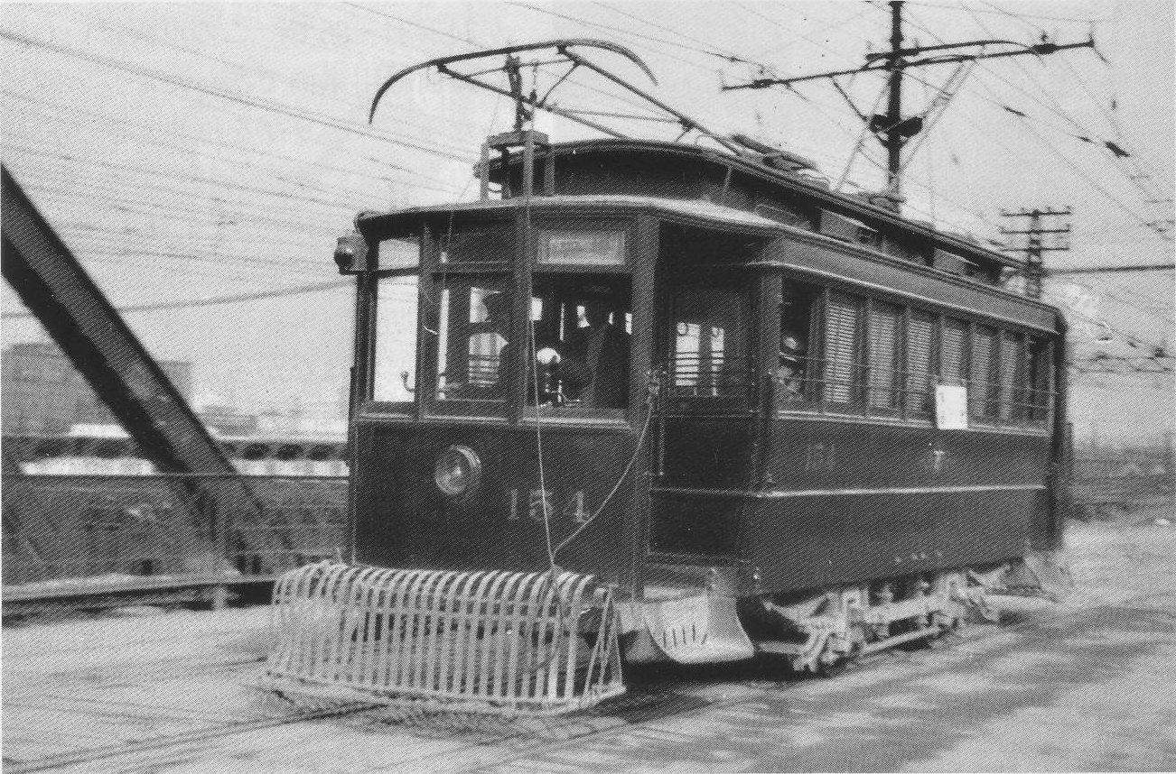 Hnakyu 154. taken in 1933.